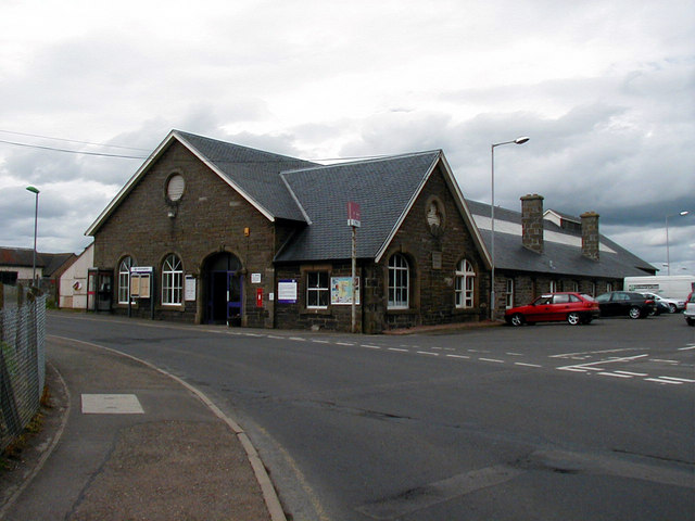 Wick Railway Station